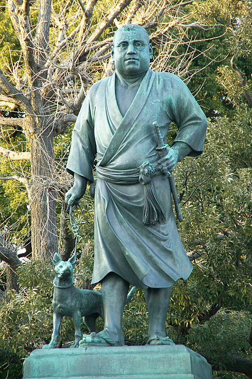 Statue of Saigo Takamori Ueno Park Taito-ku Tokyo Japan I took this photo The author of this artwork that was made in 1898 is Takamura Kōun(1852-1934). Thus the artwork itself is in PD.